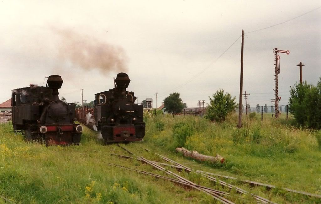 Covasna Comandău (1994) - Narrow gauge steam locomotives